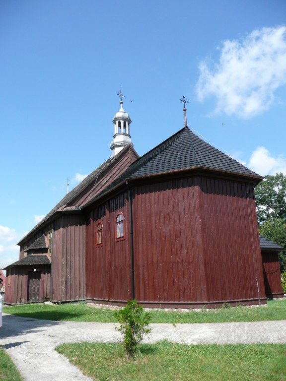 Church in Jeruzal, Poland